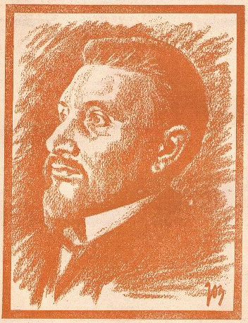 Emiel Vliebergh. Front page of the Flemish magazine Pallieter (1922-1928). All front pages were designed and illustrated by Jos De Swerts (1890-1939).